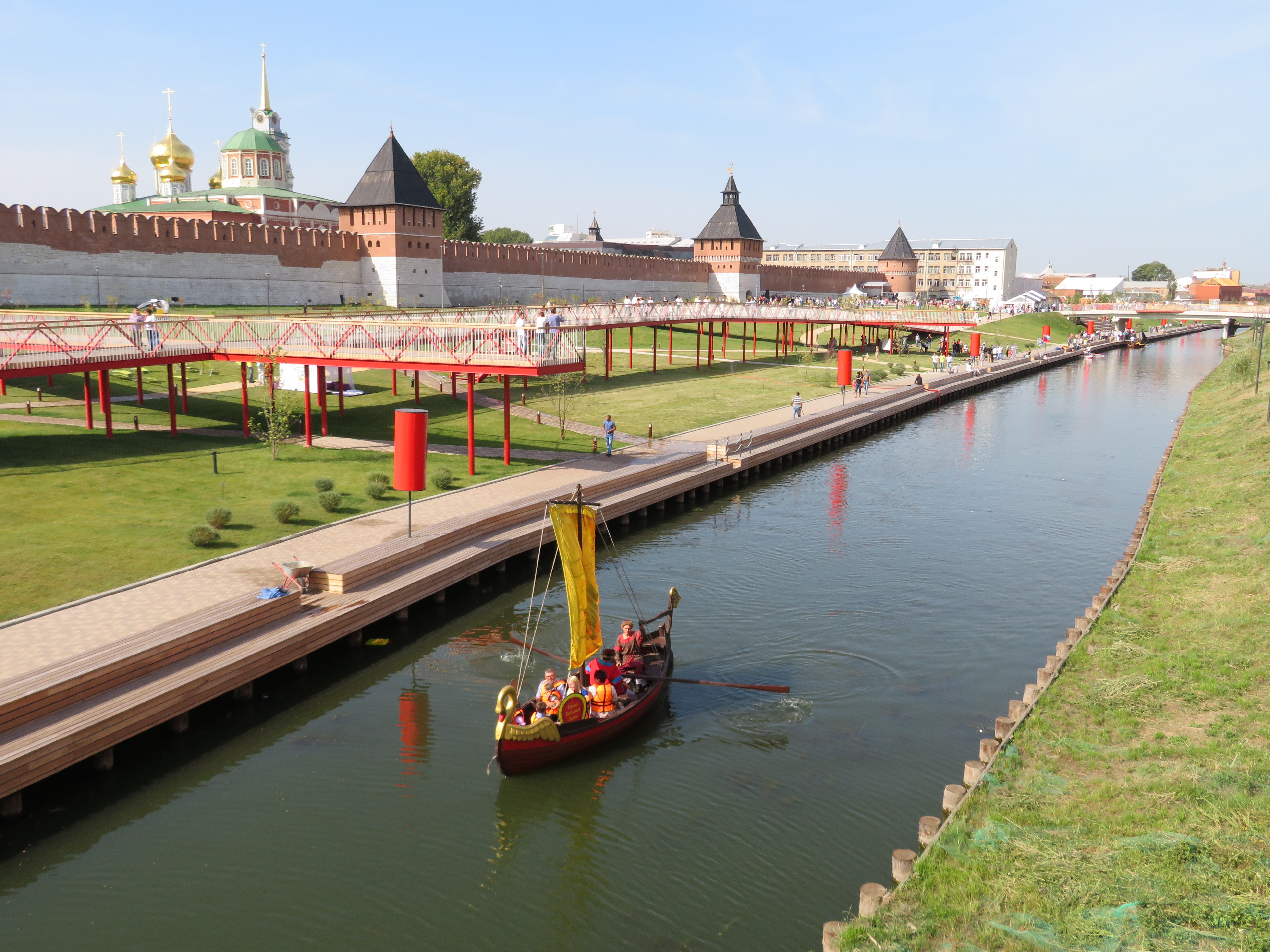 Tula Embankment near the Tula Kremlin at the Day of Tula on 8 September 2018.